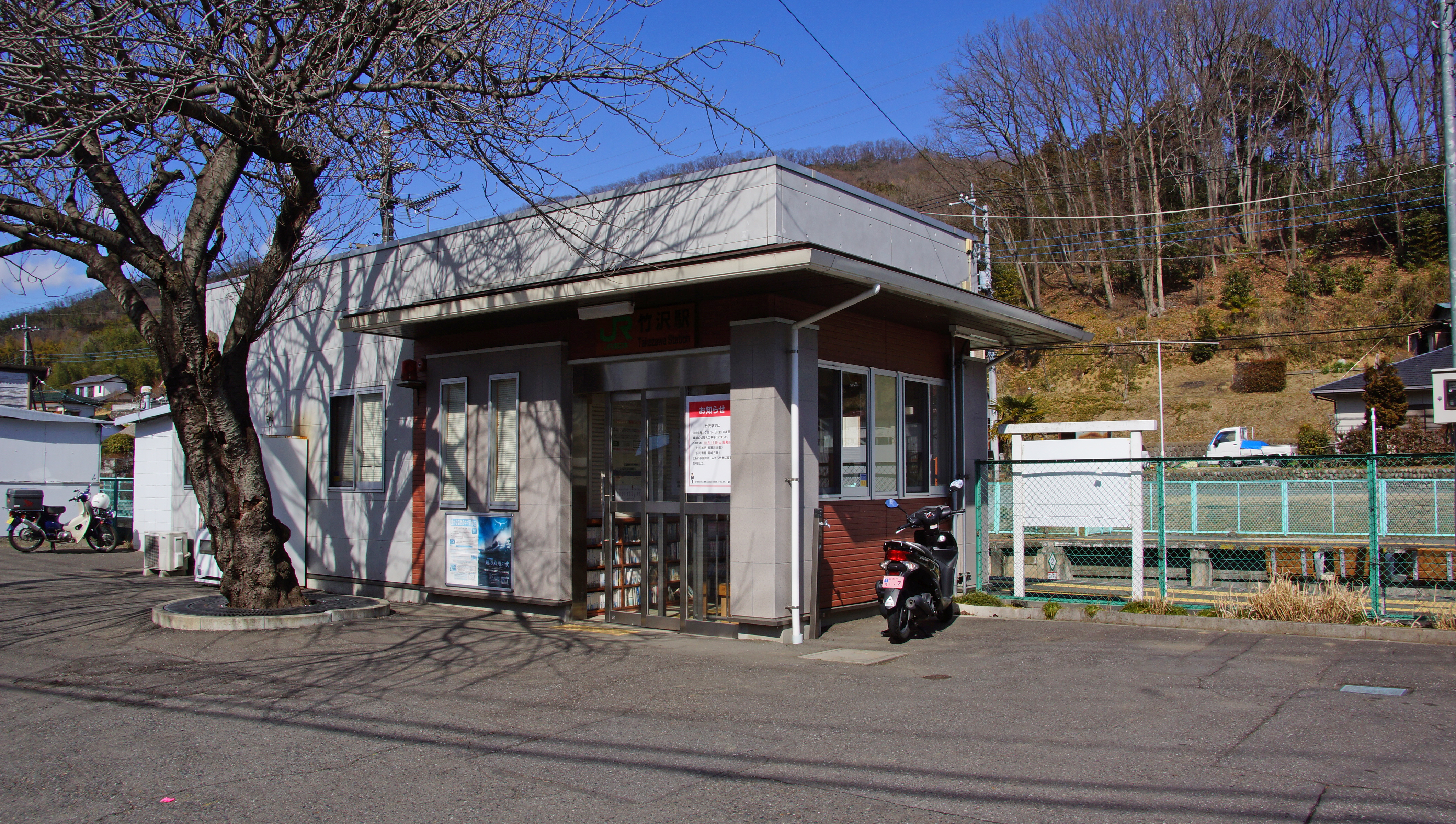 Takezawa Station on the Hachiko Line in Saitama Prefecture, Japan